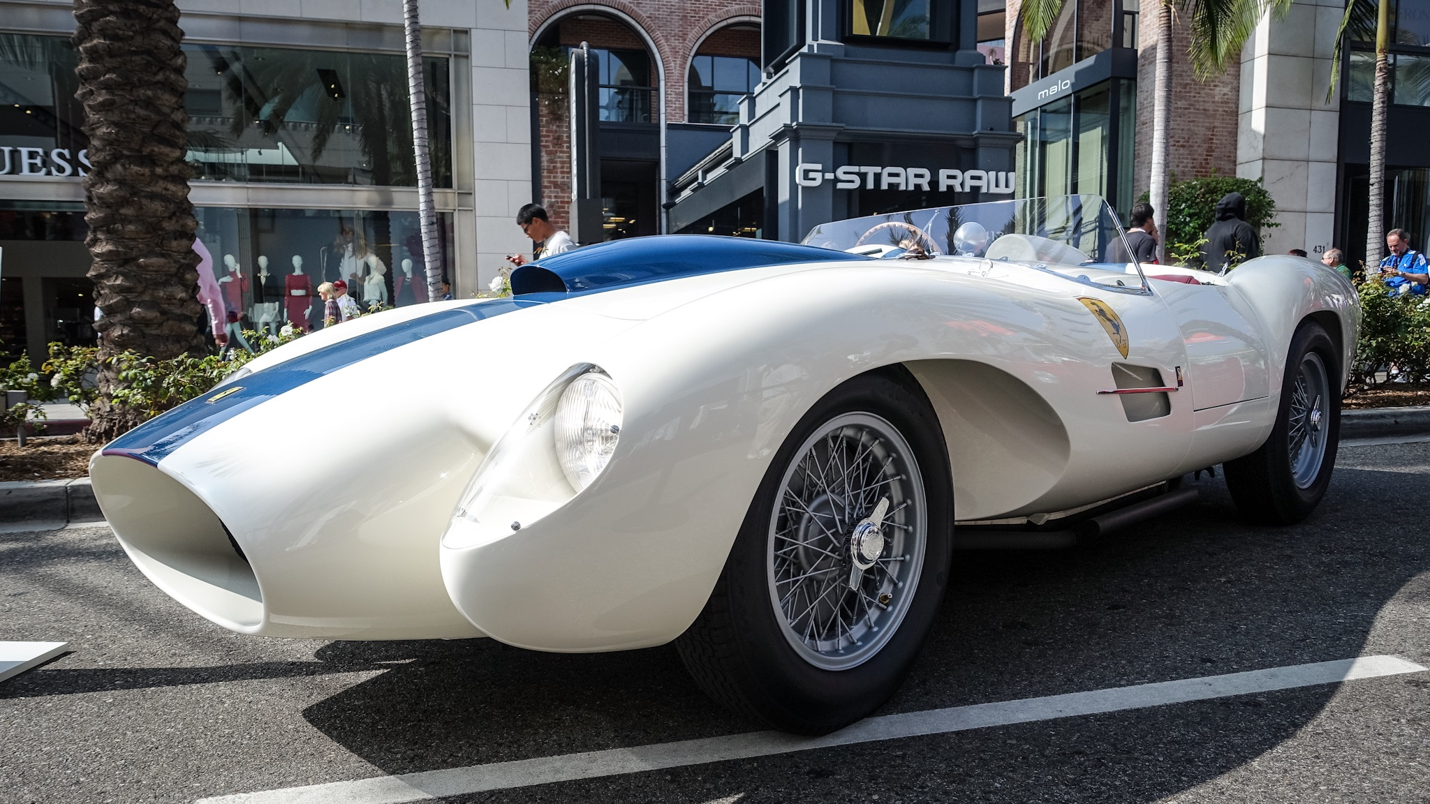 The original Ferrari Monza was built in 1954 and used a V12 engine with three four-barrel carburetors derived from the 250MM. THis is the second of the four 250 Monzas built. It was originally bodied by Pinin Farina as a Spyder and sold to Franco Cornacchia's Scuderia Guastalla. Luigi Piotti and Maurice Trintignant won the 1954 12 Hours of Hyeres in this car. It was then sold to Luigi Chinetti, who had Scaglietti rebody the car in a style similar to the "pontoon fender" Testa Rossa, which is alleged to have been an inspiration for the design of Speed Racer's Mach Five.